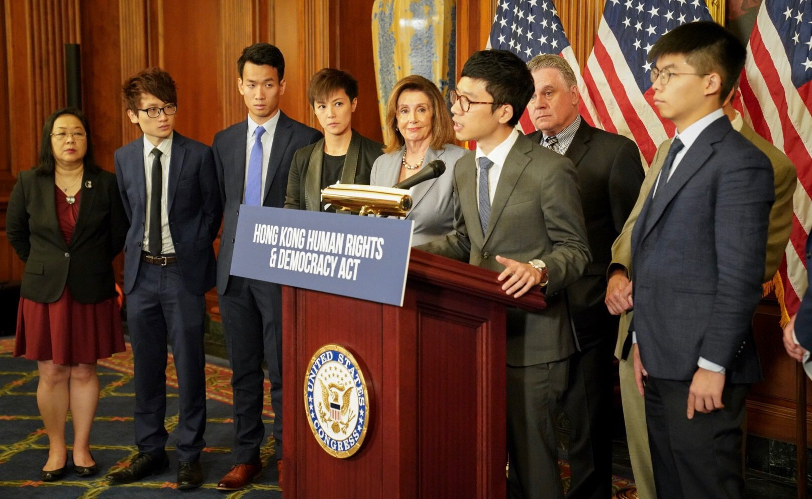 Sunny Cheung, along with Speaker Nancy Pelosi and HK delegations speaks at the US Capitol on September 18, 2019